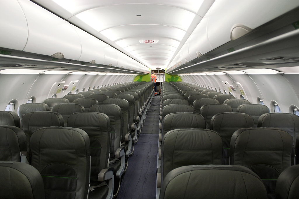 During check. Recaro seats.